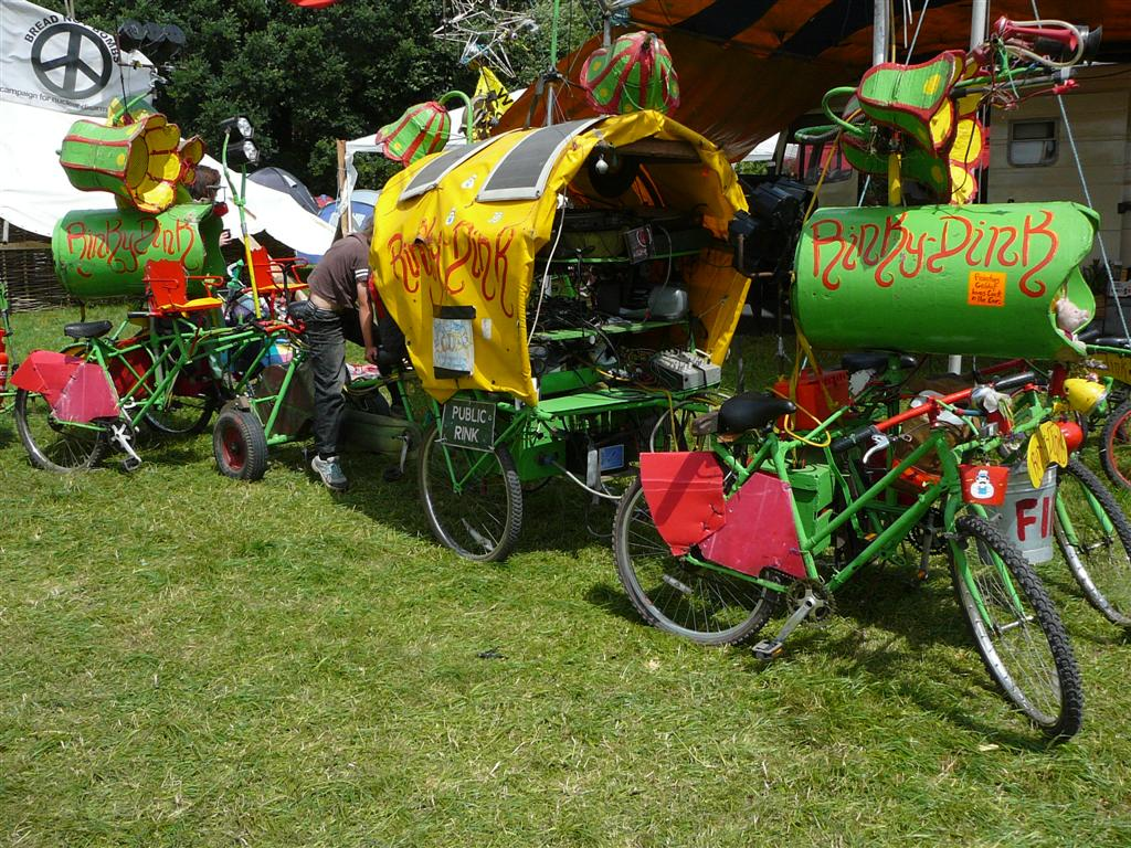 Rinky Dink sound system photographed at Glastonbury Festival 2008.